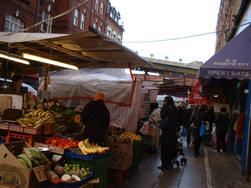 Brixton market, London by C Ford taken March 04.